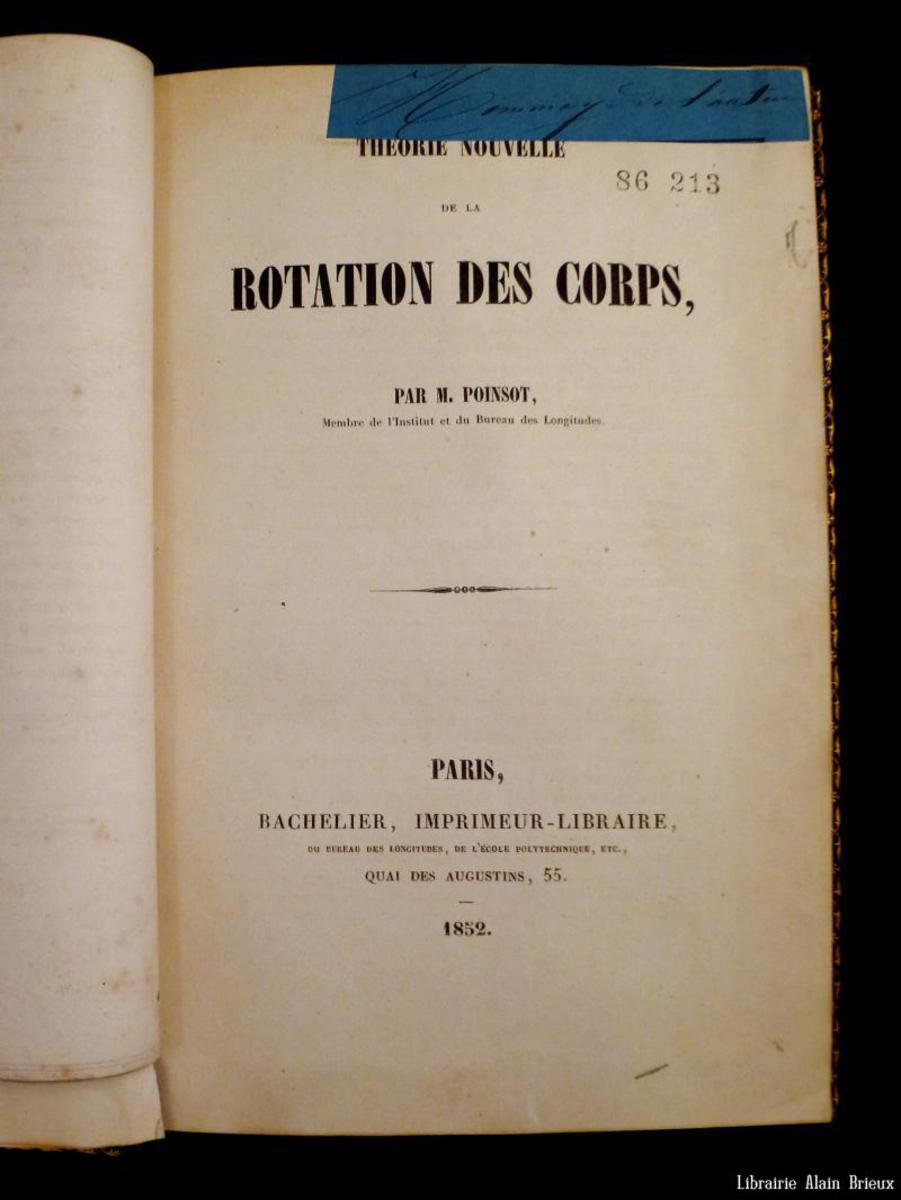 Title page of "Théorie Nouvelle de la Rotation des Corps", thought to be the first publication of the so-called "tennis racket theorem" of mechanical rotation. This theorem says that rotating around the the axis with the middle moment of inertia (the second axis) will unavoidably produce a simultaneous half turn in the third axis. Published in 1852.